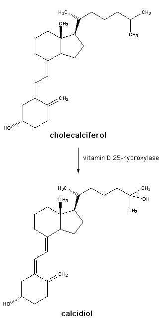 Enzymatic conversion of cholecalciferol to calcidiol by vitamin D 25-hydroxylase, a step in the biosynthesis of the active form of vitamin D3.